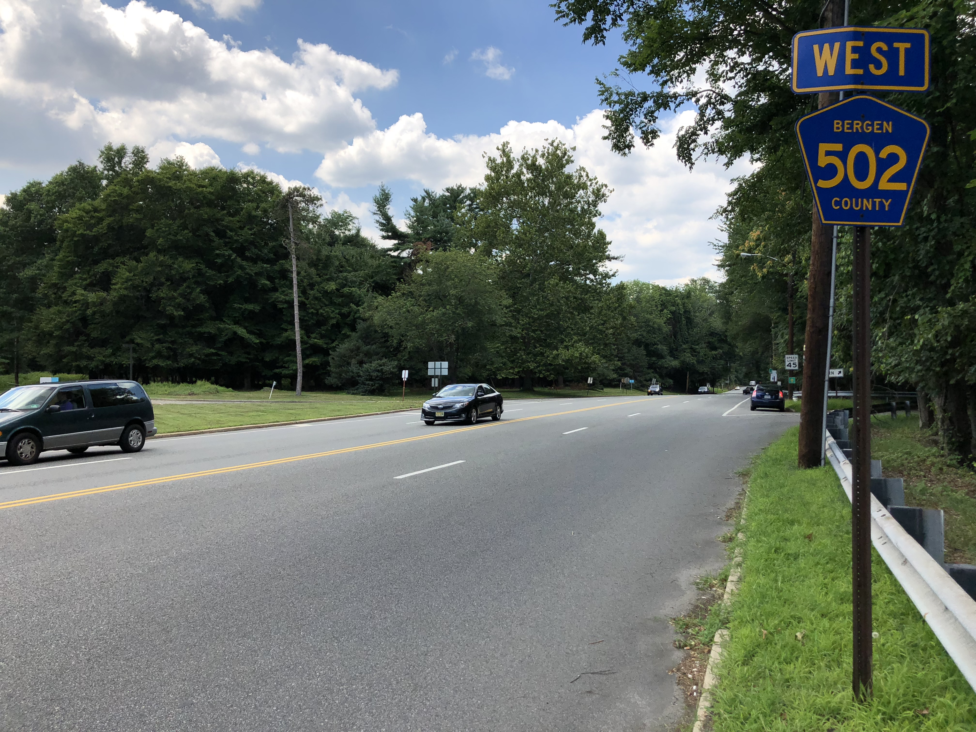 View west along Bergen County Route 502 (Old Hook Road) at Bergen County Route 104 (Bogerts Mill Road) in Harrington Park, Bergen County, New Jersey